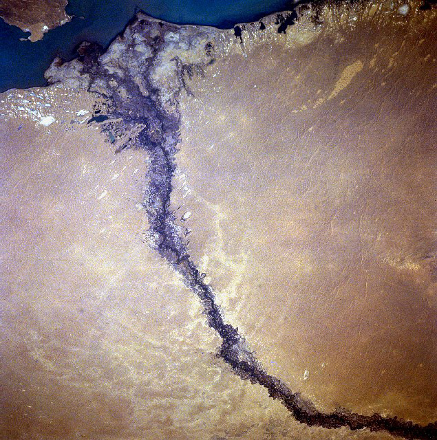 Karatal River entering Lake Balkhash, Kazakhstan - September 1996 image description here larger version here